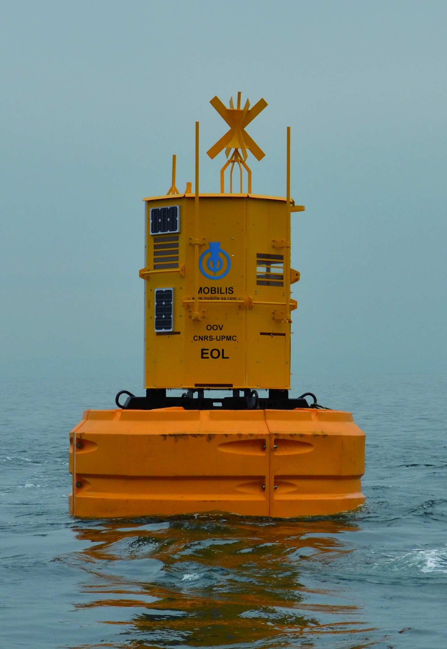 Data Buoy with environnemental modular platform